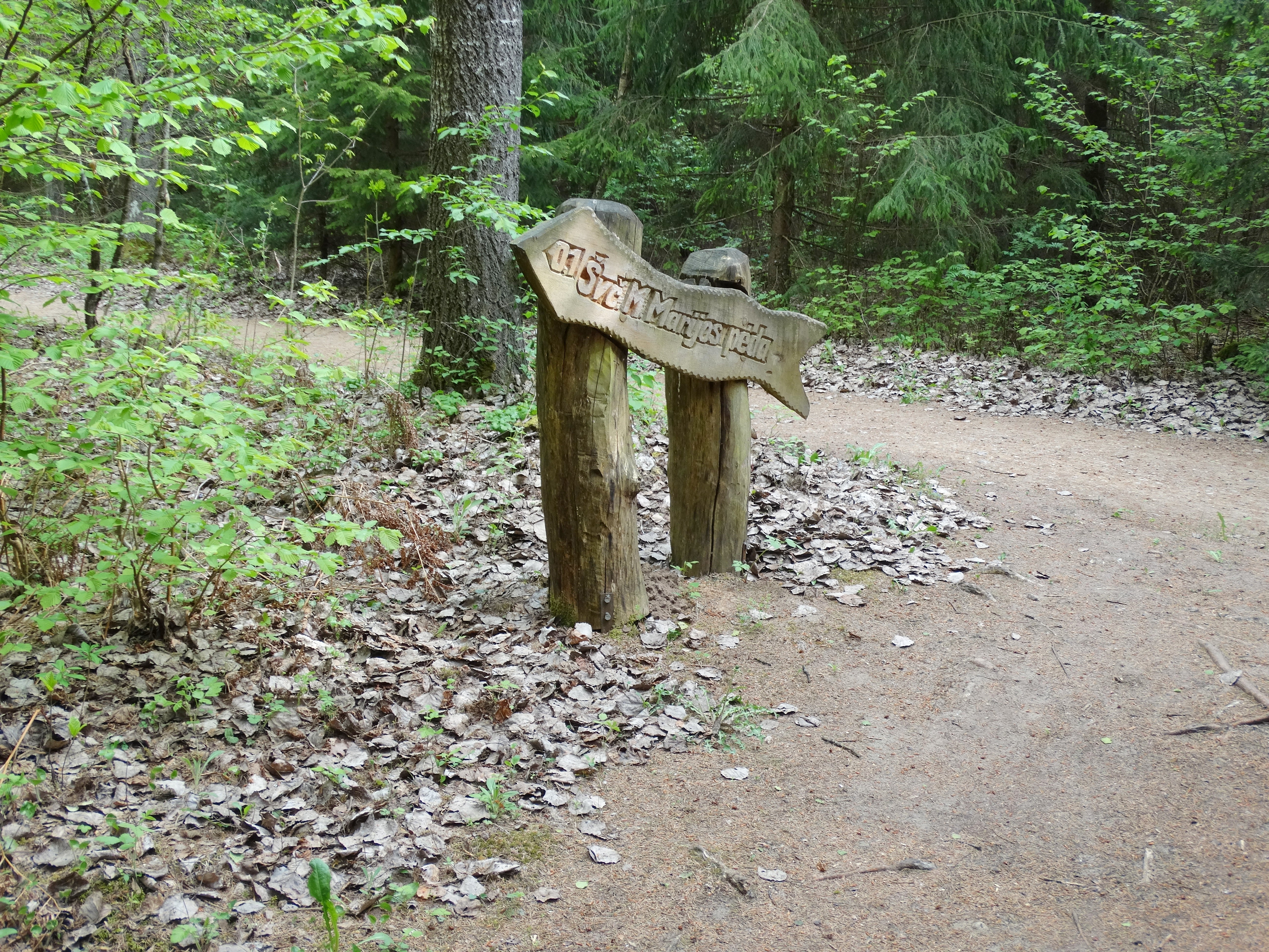 Rozalimas forest, Pakruojis District, Lithuania